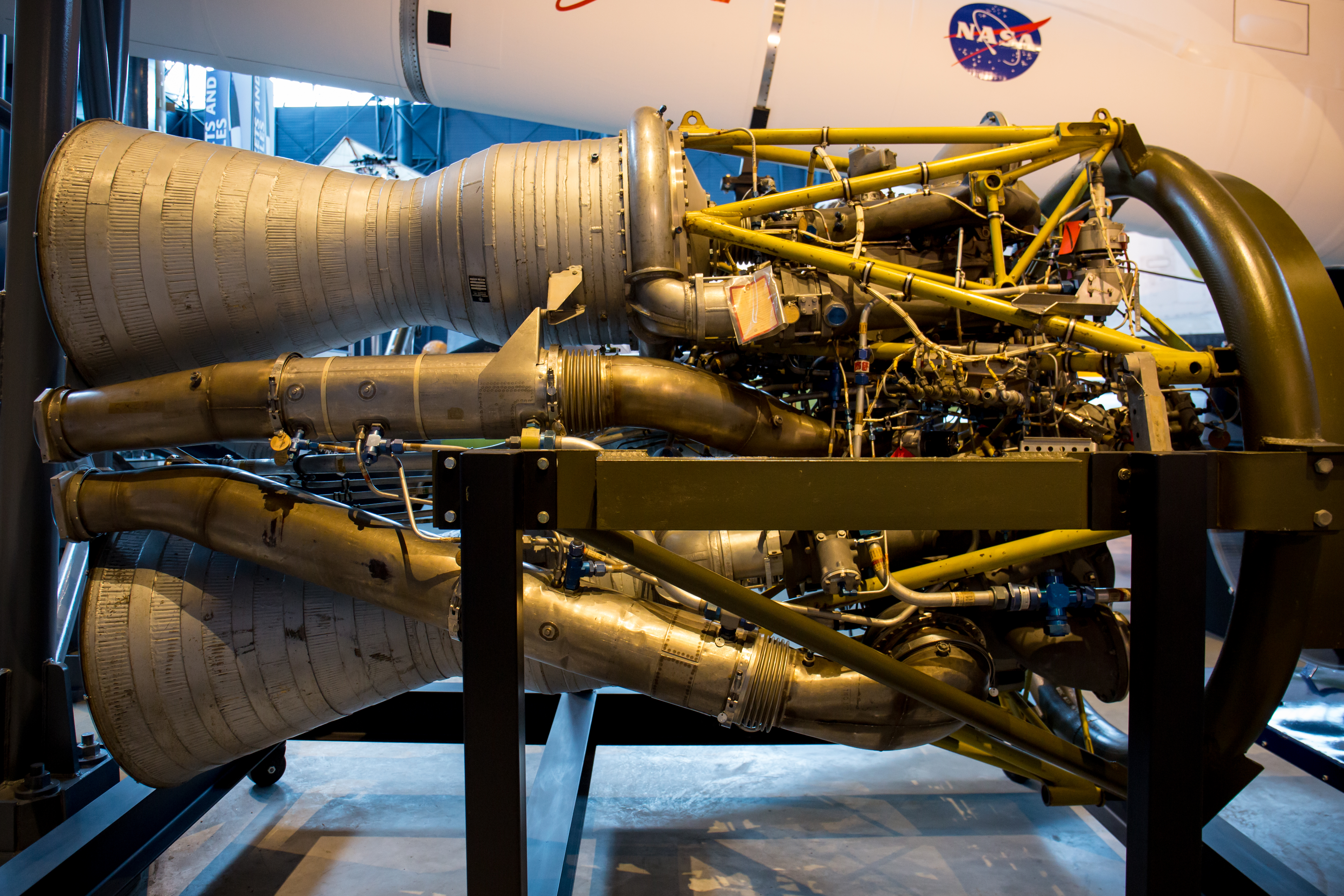 The dual-engine of the SM-64 Navaho at the Smithsonian National Air and Space Museum Udvar-Hazy Center.